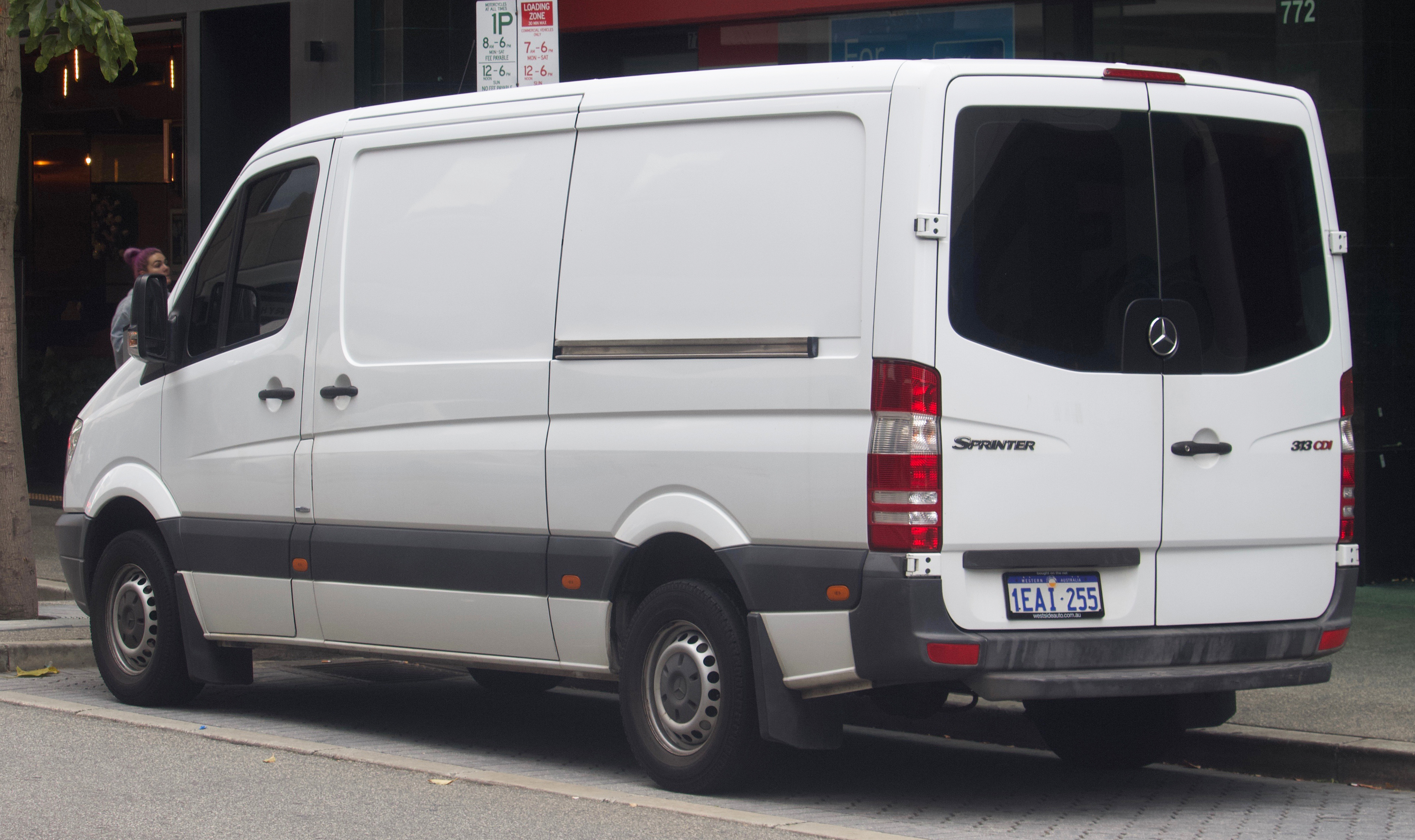 2012 Mercedes-Benz Sprinter (W 906 MY12) 313 CDI van. Photographed in Perth, Western Australia, Australia.